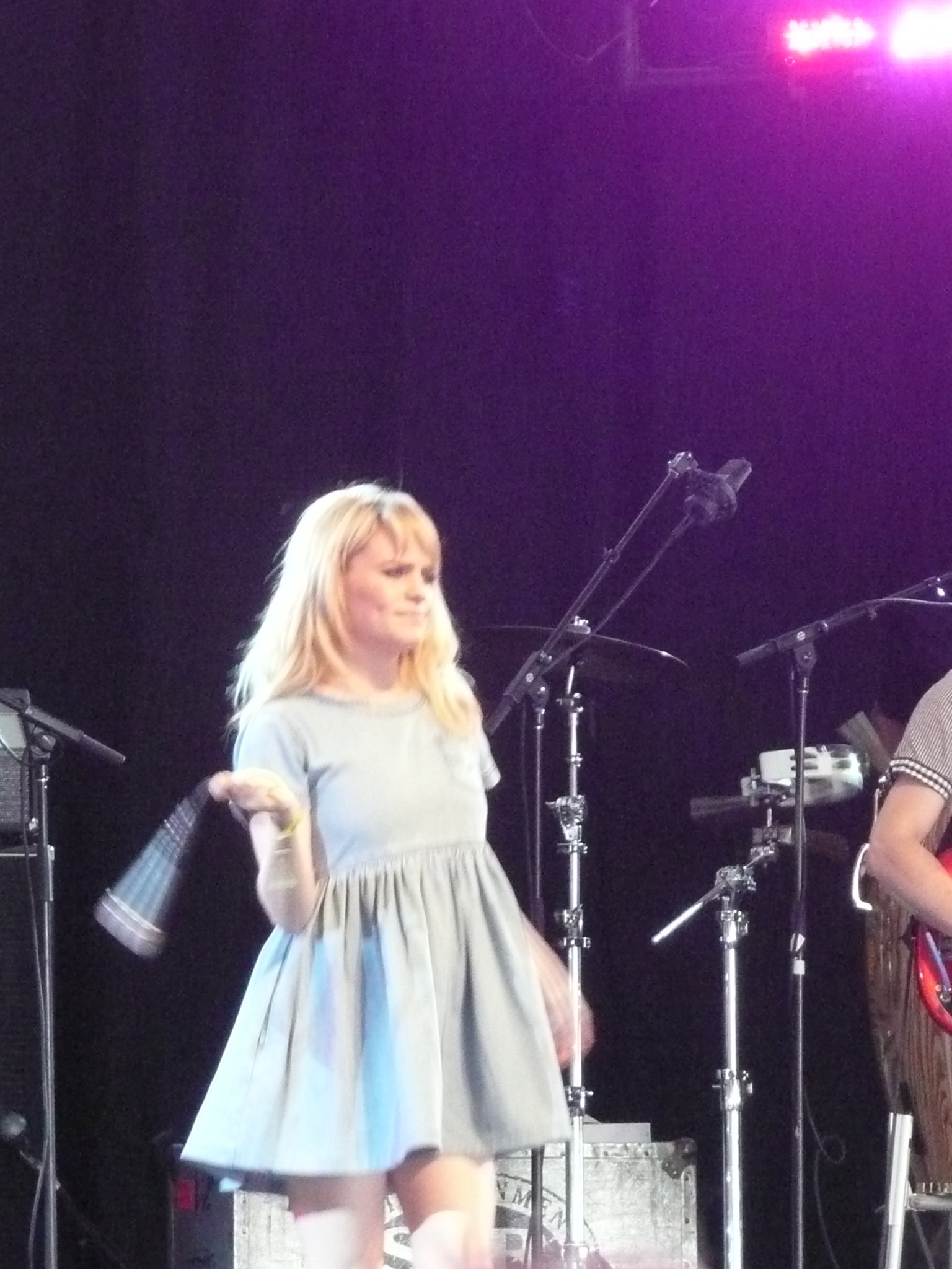 Welsh singer Duffy in live performance